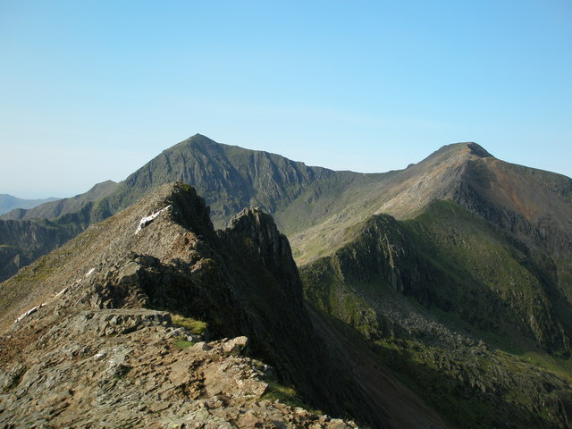 Crib Goch Crib Goch with Snowdon in background